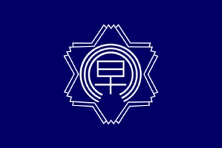 Flag of Hayakawa Yamanashi